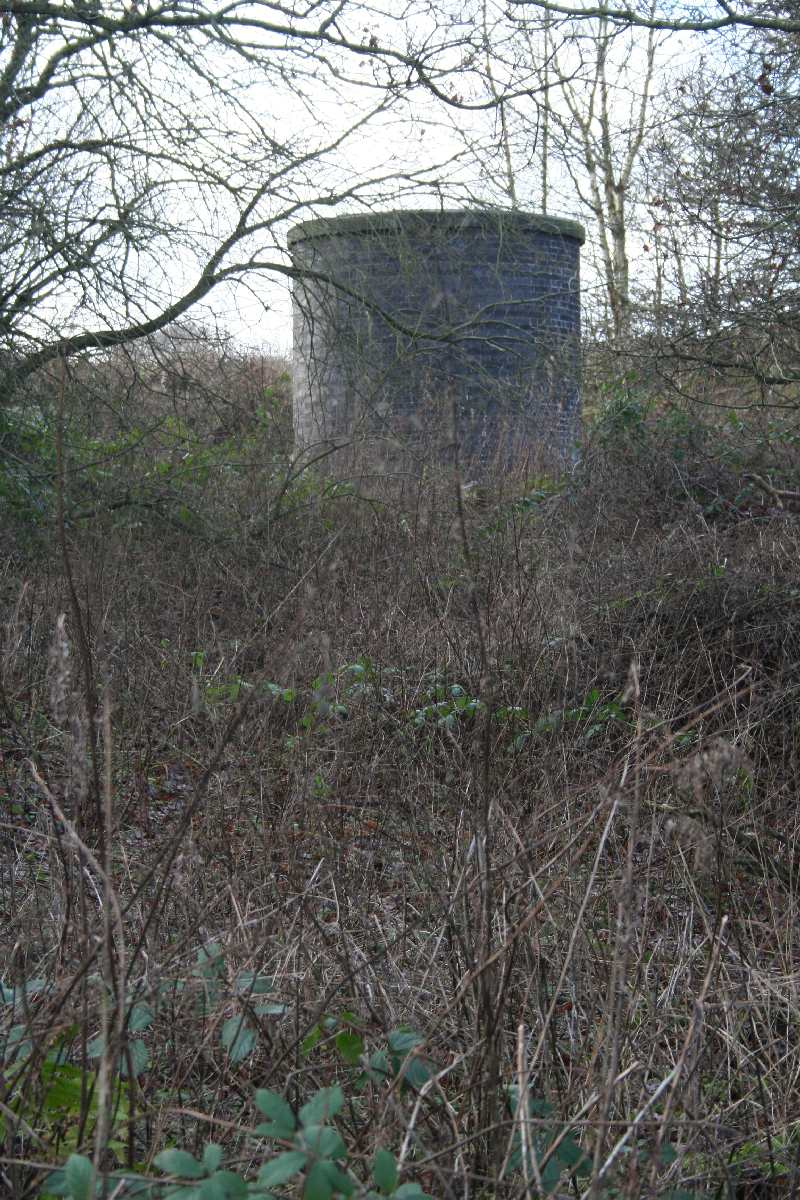 Airshaft, Disley Tunnel